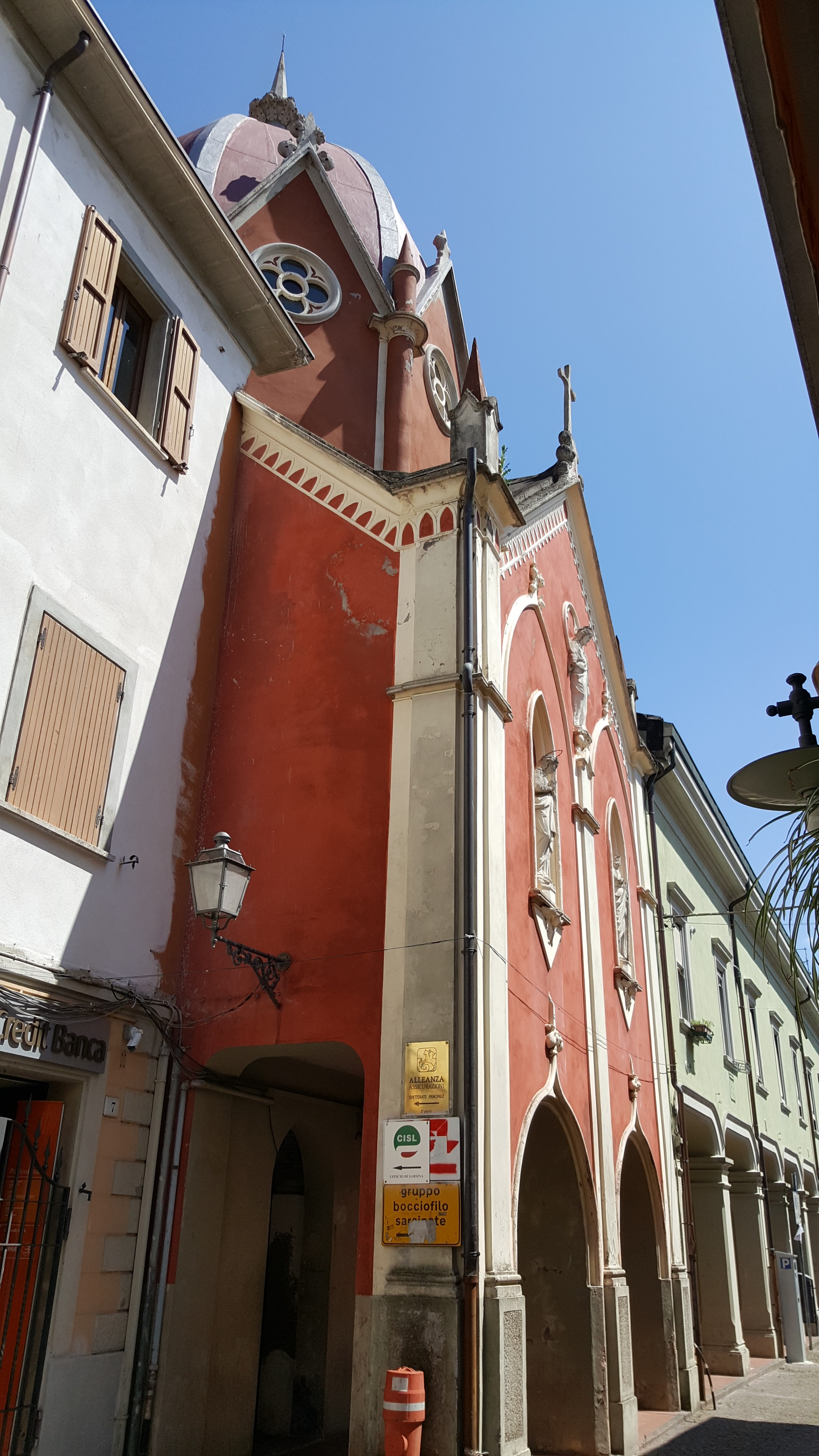 This is a photo of a monument which is part of cultural heritage of Italy.